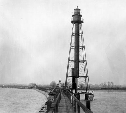 Bellevue Range Rear Light, Wilmington (New Castle County, Delaware)